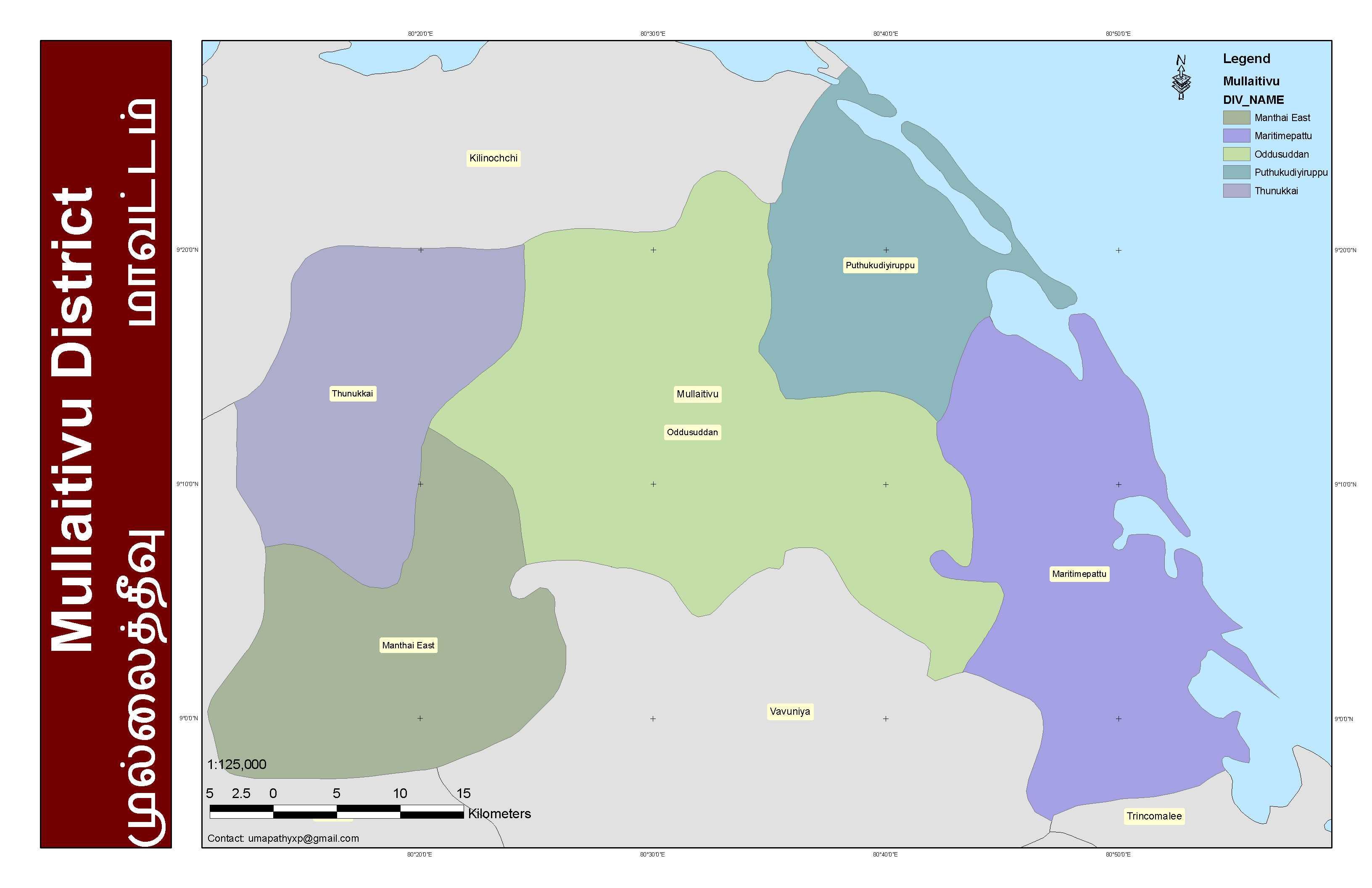 desciption: Sri Lanka Mullaitivu District author:Regunathan Umapathy source: Survey Department of Sri Lanka